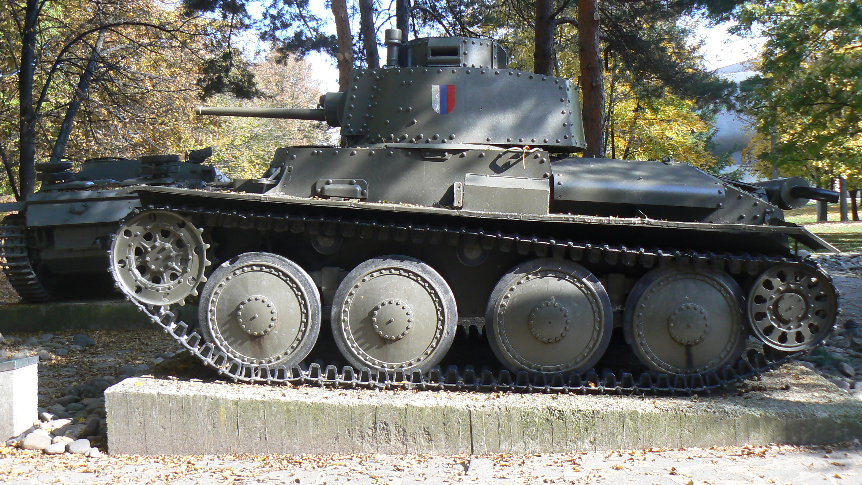 Museum of Slovak National Uprising.